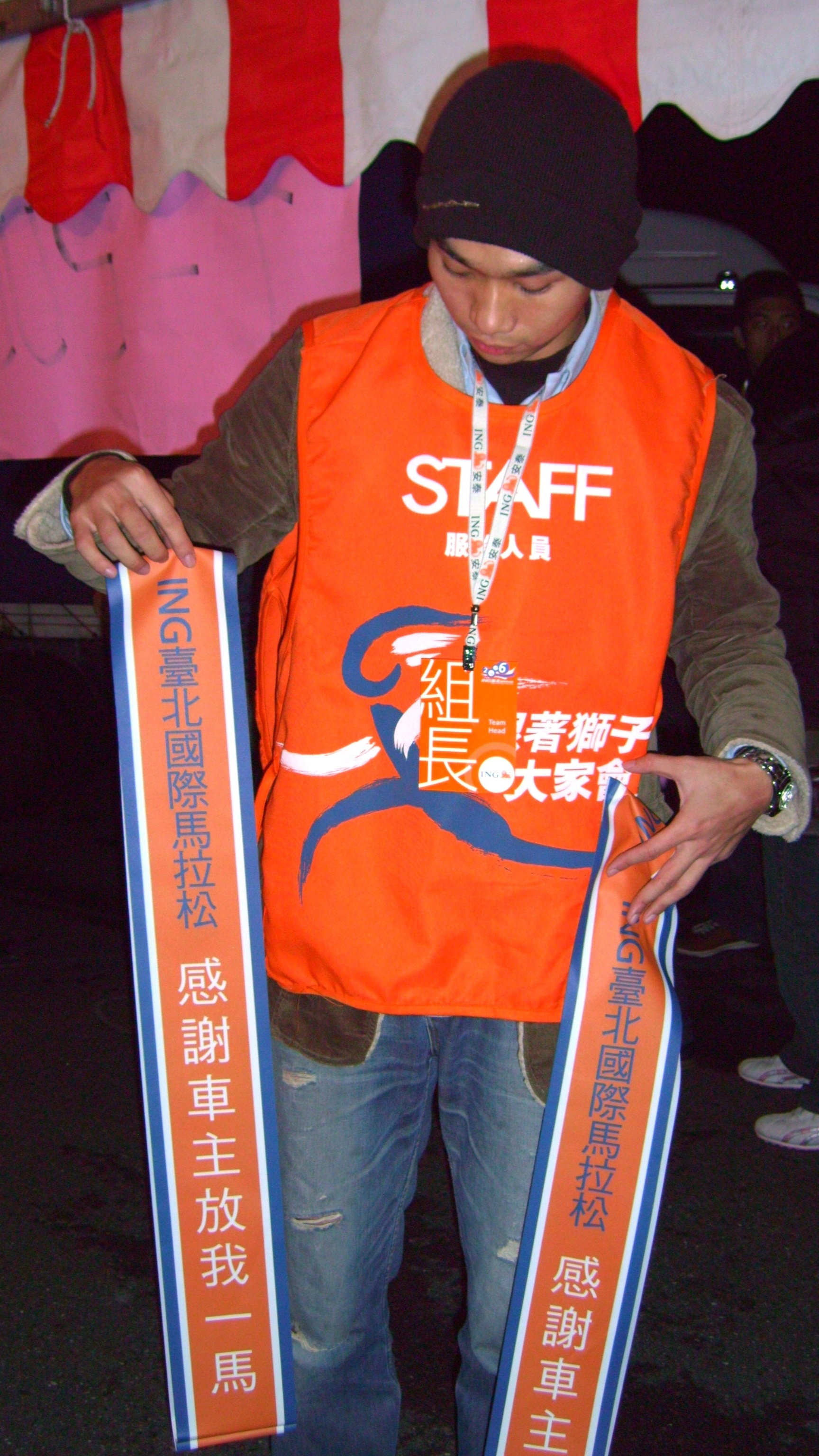 A special streamer with some chinese words "感謝車主放我一馬" (meaning: Thanks car drivers let marathons smoothly running).